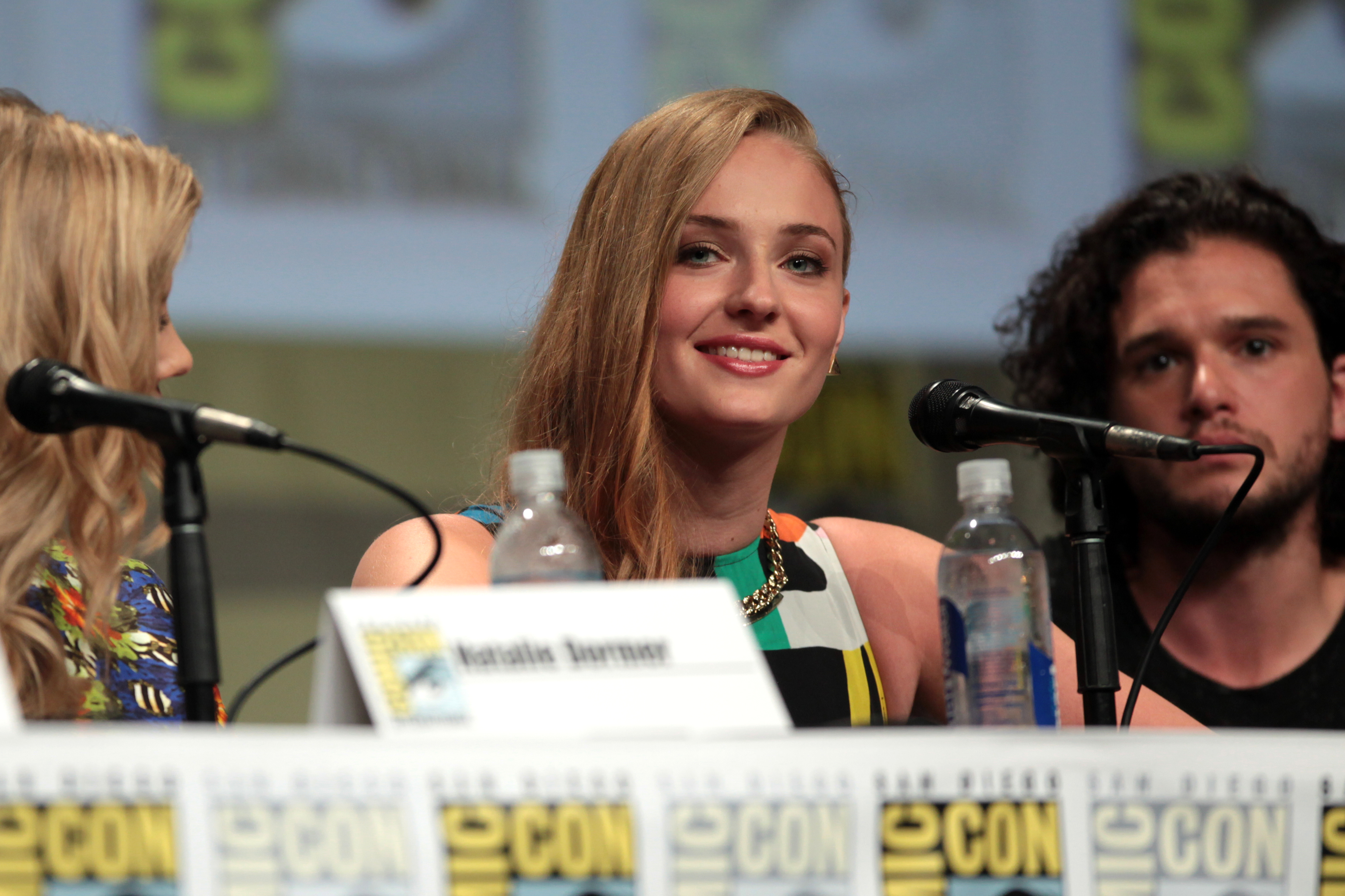 Sophie Turner and Kit Harrington speaking at the 2014 San Diego Comic Con International, for "Game of Thrones", at the San Diego Convention Center in San Diego, California.